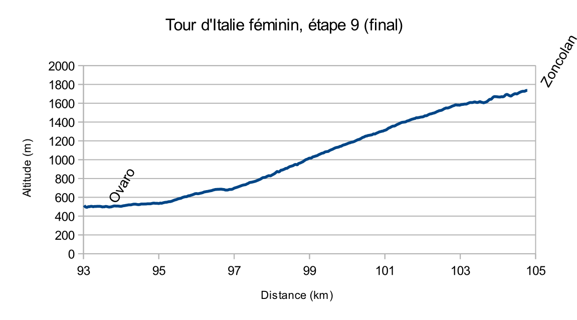 Profile of stage 9 of Giro donne 2018.